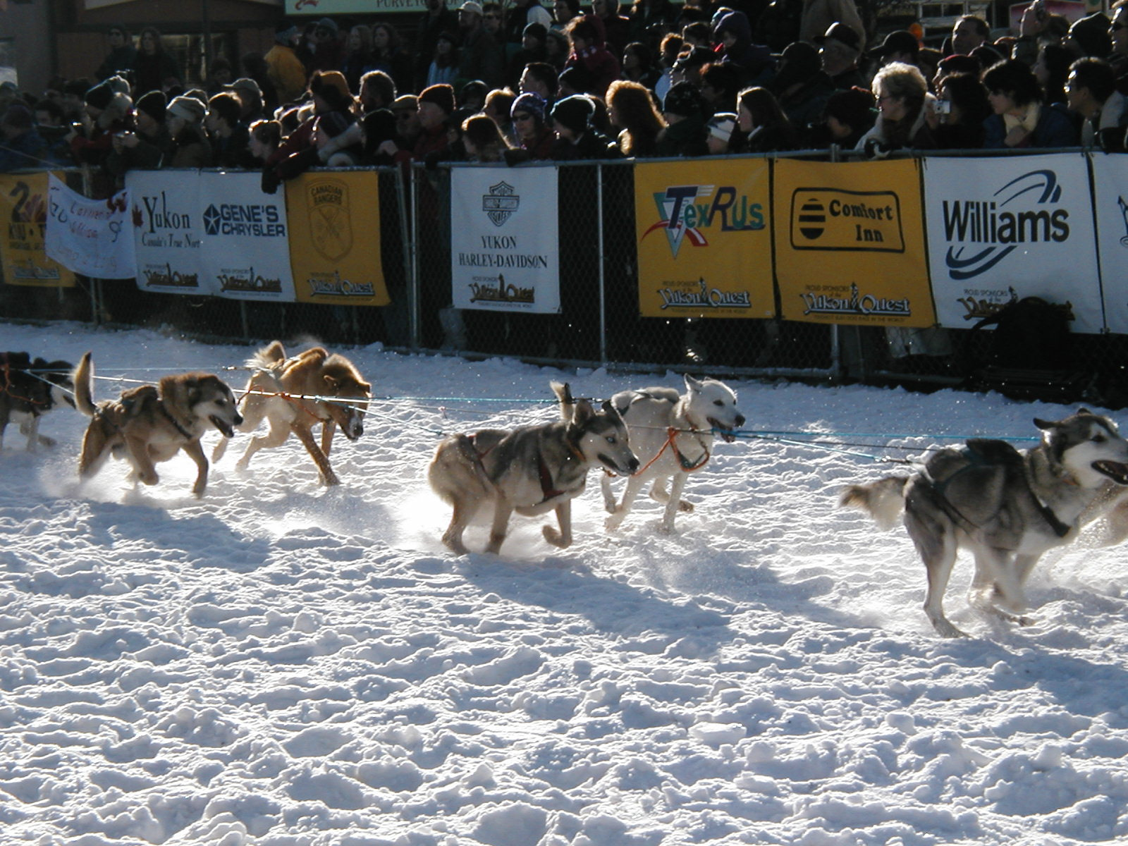 A dog team leaves the starting chute of the Yukon Quest in Whitehorse, February 9th, 2003.